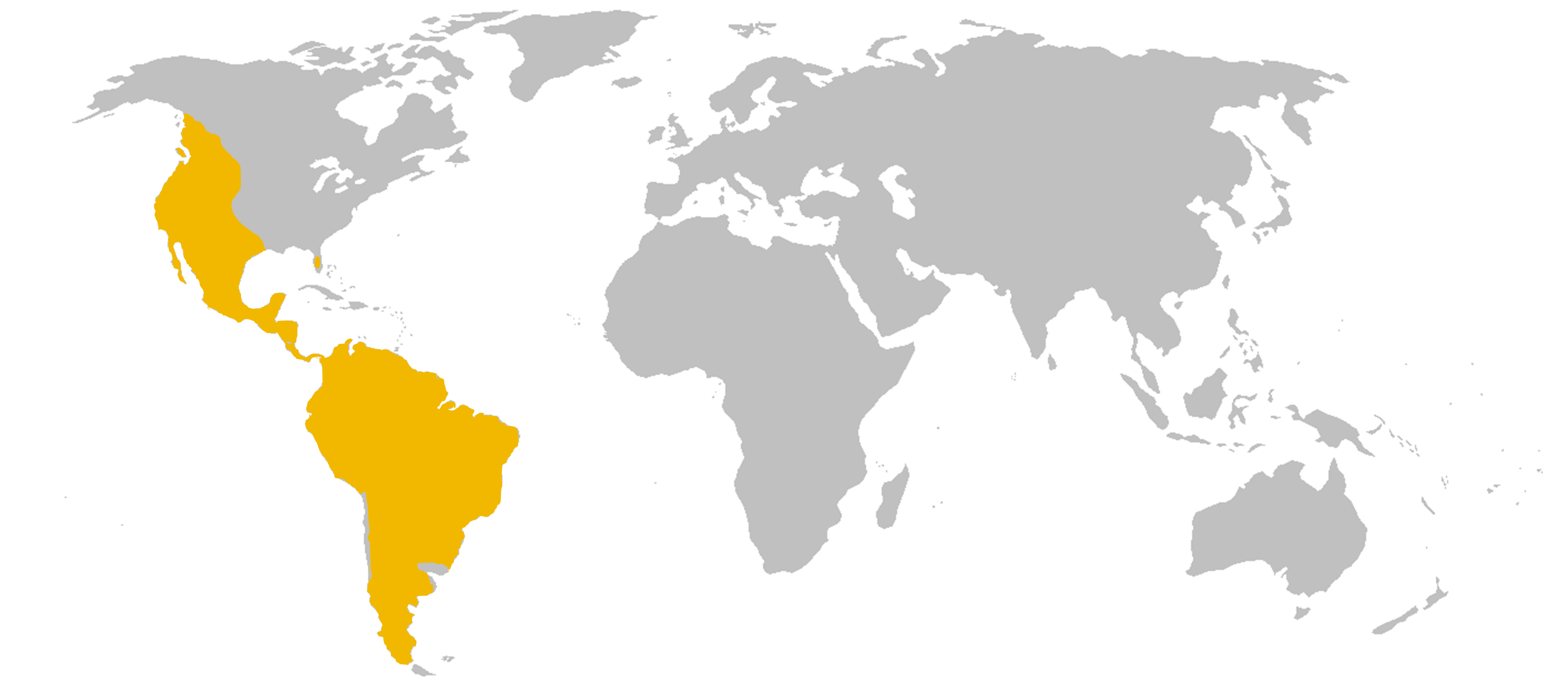 Puma (Puma -or Felis- concolor) range map.